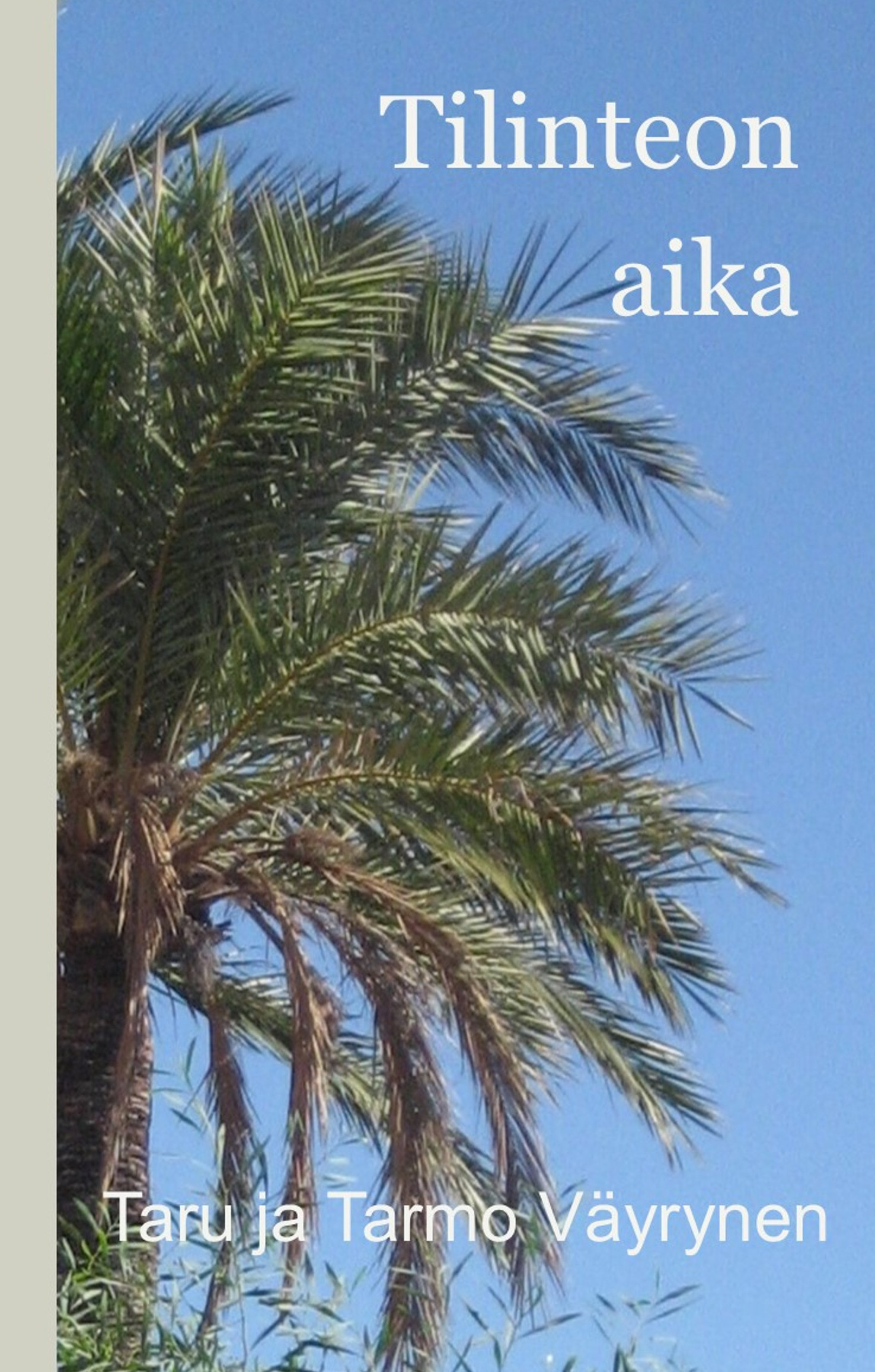 Tilinteon aika